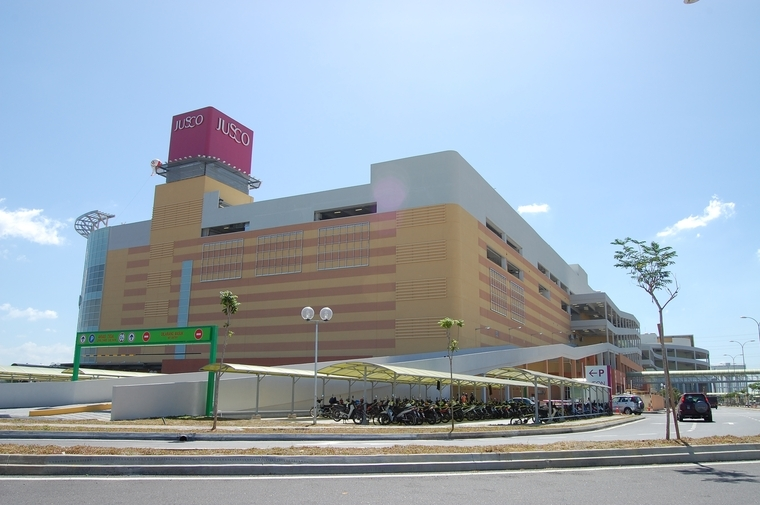 AEON Bukit Tinggi in Klang, Selangor, Malaysia